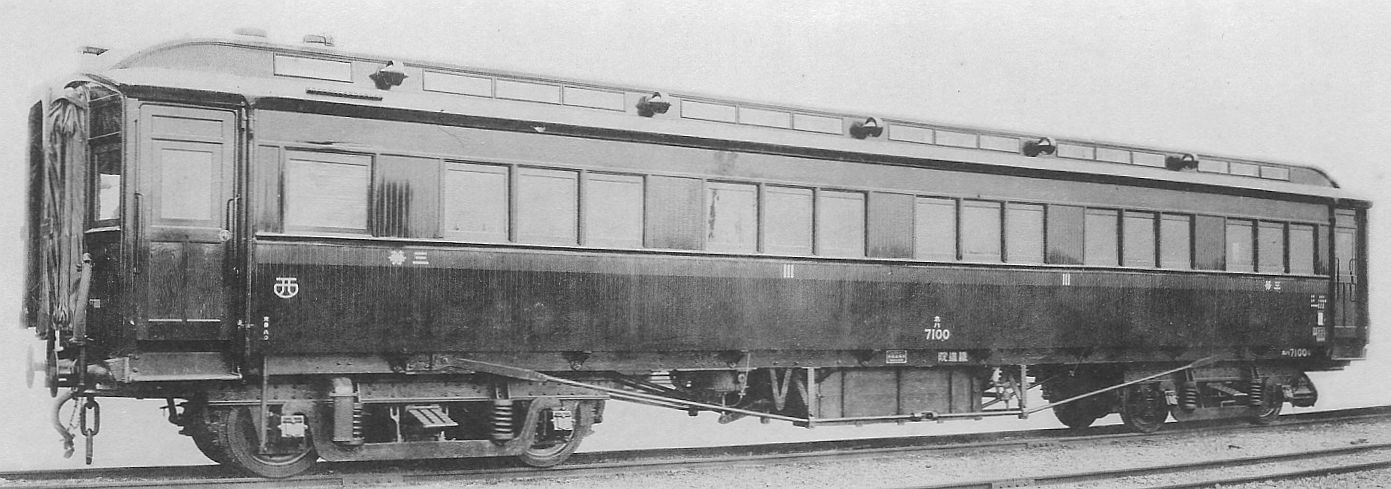 Third Class Passenger Car Hoha 7100 (Type Hoha 6810) of JGR